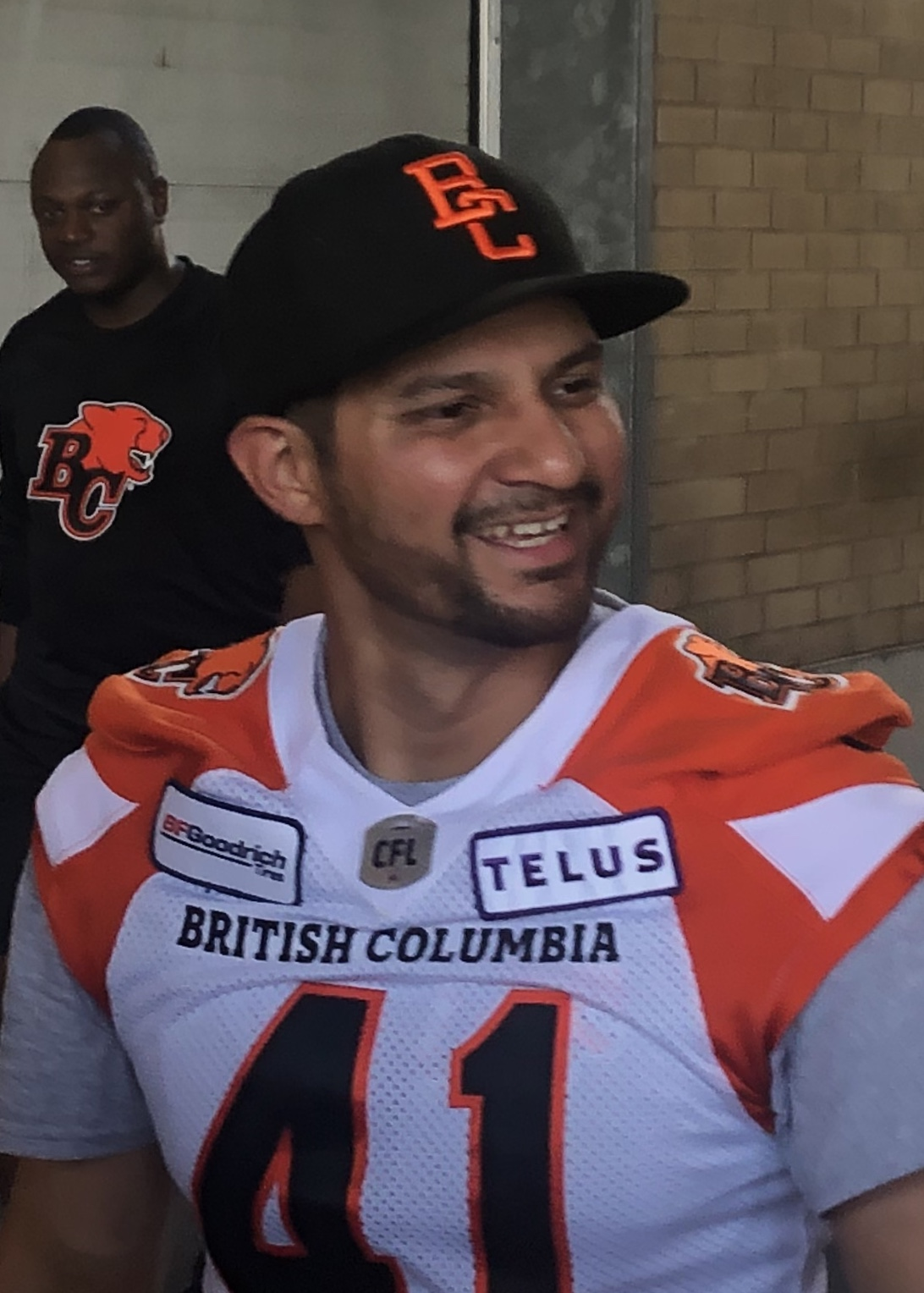 Sergio Castillo, placekicker for the BC Lions.